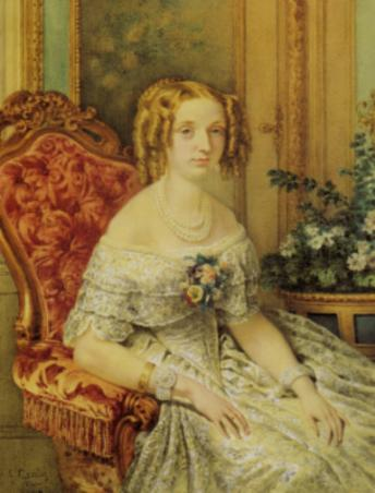 Elisabeth of Saxony, duchess of Genoa